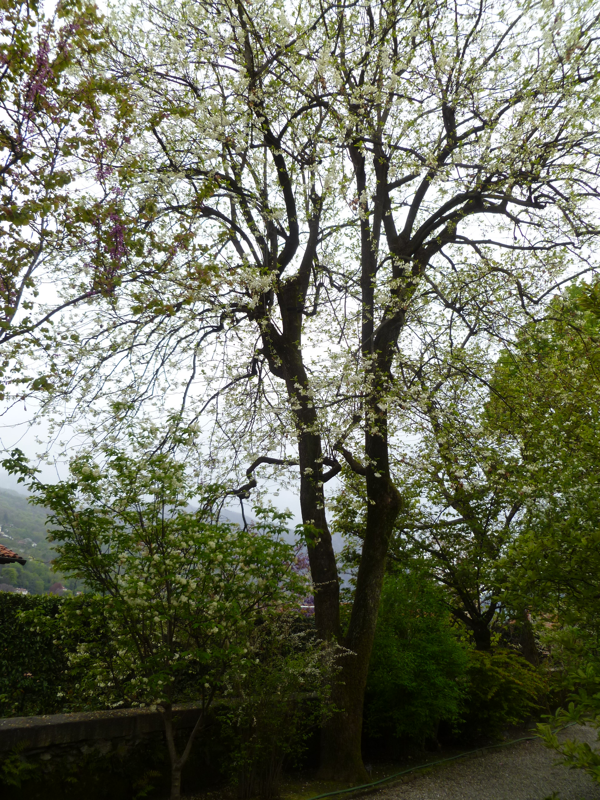 Halesia diptera; family Styracaceae; botanical gardens of the Palazzo Borromeo, Isola Bella, Italy